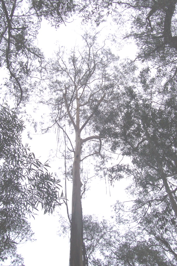 Eucalyptus_smithii - Deua National Park, approx 40 metres tall on edge of Eucryphia rainforest, not far from Hanging Mountain, almost exactly on 36 degrees south of the equator